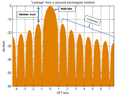 This is a portion of the DTFT for a rectangularly-windowed sinusoid. The actual frequency of the sinusoid is indicated as "0" on the horizontal axis. Everything else is leakage. The unit of frequency is "DFT bins"; that is, the integer values on the frequency axis correspond to the frequencies sampled by the DFT. So the figure depicts a case where the actual frequency of the sinusoid happens to coincide with a DFT sample, and the maximum value of the spectrum is accurately measured by that sample. When it misses the maximum value by some amount [up to 1/2 bin], the measurement error is referred to as scalloping loss (inspired by the shape of the peak). But the most interesting thing about this case is that all the other samples coincide with nulls in the true spectrum. (The nulls are actually zero-crossings.) So in this case, the DFT creates the illusion of no leakage.